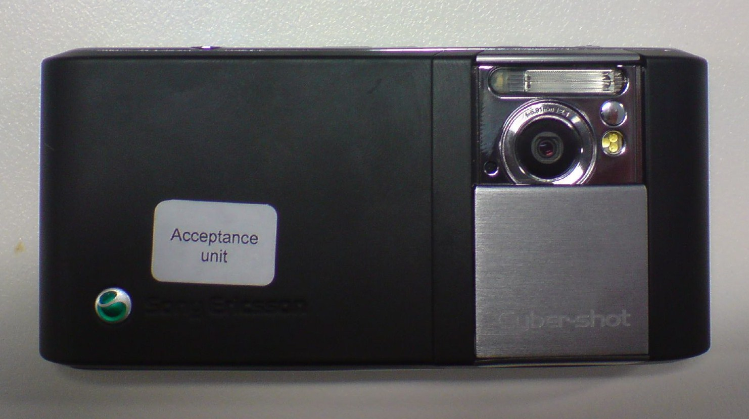 Sony Ericsson C905. Image cropped from original at Flickr.